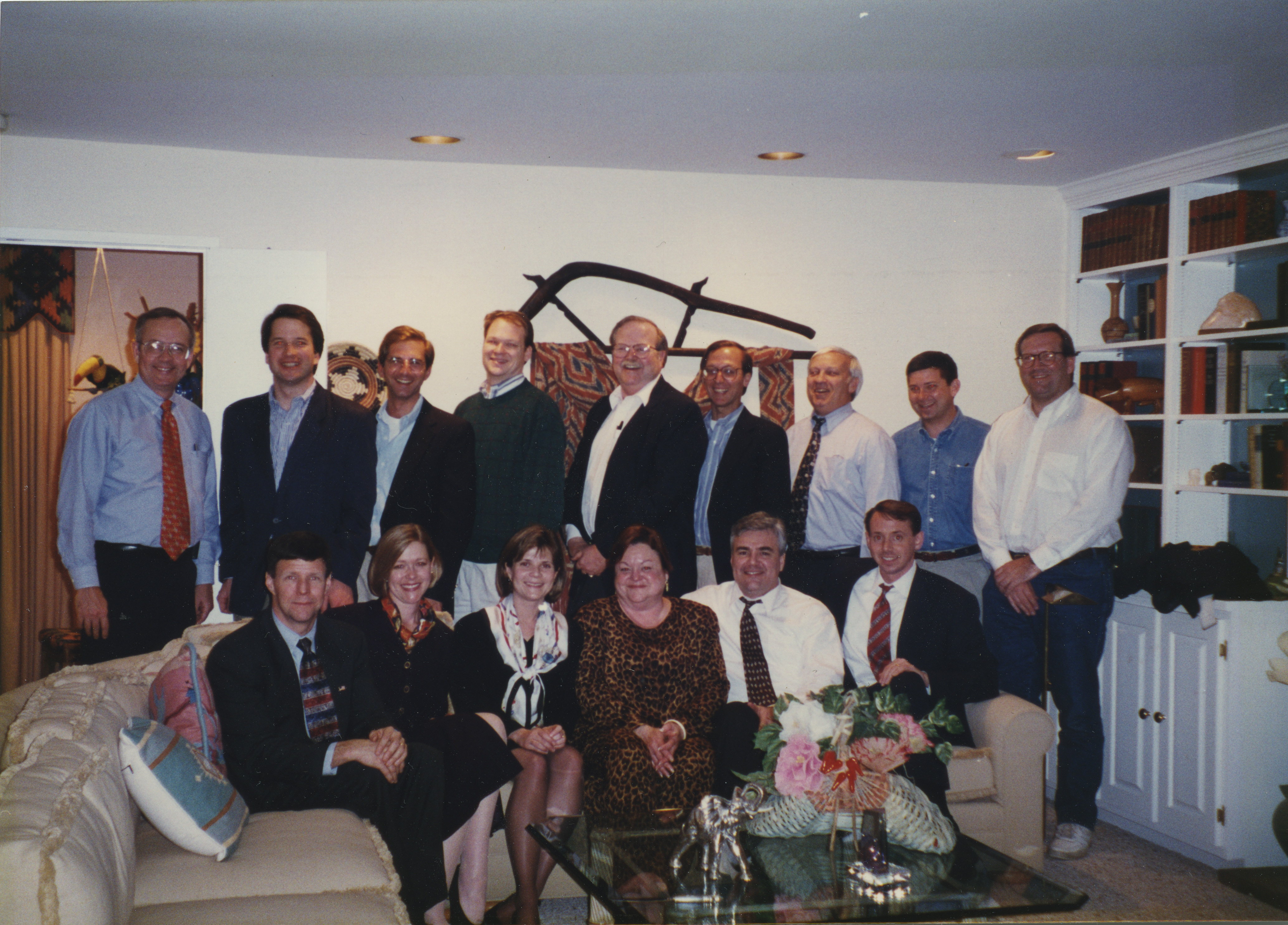 Independent-Counsel-Office-Group (circa 1990s). Ken Starr, Brett Kavanaugh, Alex Azar, and Rod Rosenstein are featured. Part of a slide show, "A Remarkable Career in Photos: Judge Kavanaugh to Testify Before the Senate"